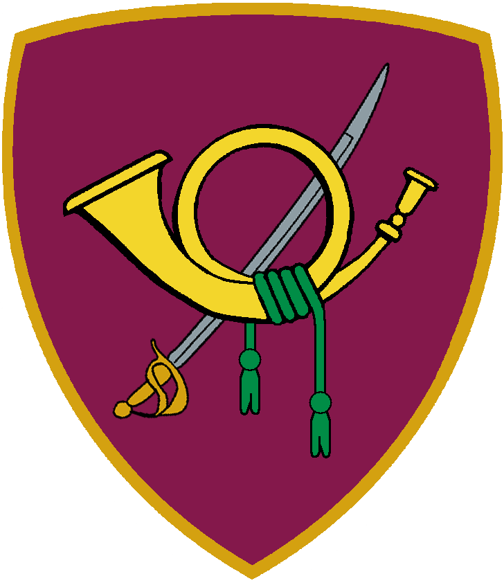 Coat of Arms of the Italian Army Bersaglieri Brigade Garibaldi after 1986